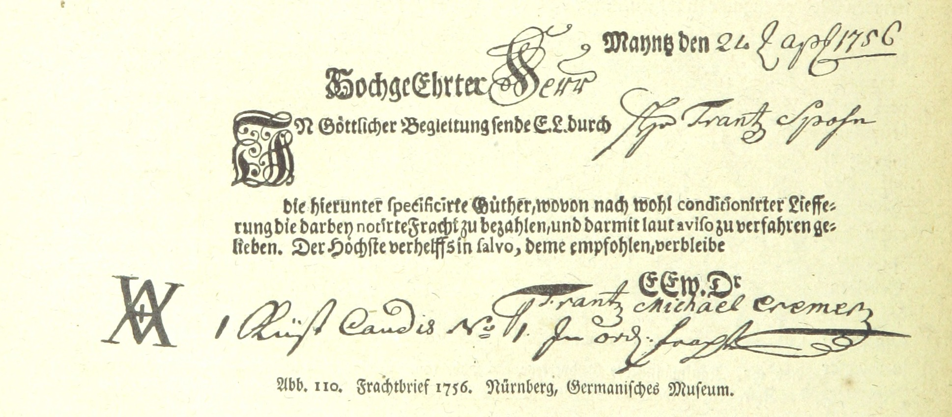 Image extracted from page 130 of Monographien zur deutschen Kulturgeschichte, herausgegeben von G. Steinhausen', by STEINHAUSEN, Georg. Original held and digitised by the British Library. Copied from Flickr. Note: The colours, contrast and appearance of these illustrations are unlikely to be true to life. They are derived from scanned images that have been enhanced for machine interpretation and have been altered from their originals.